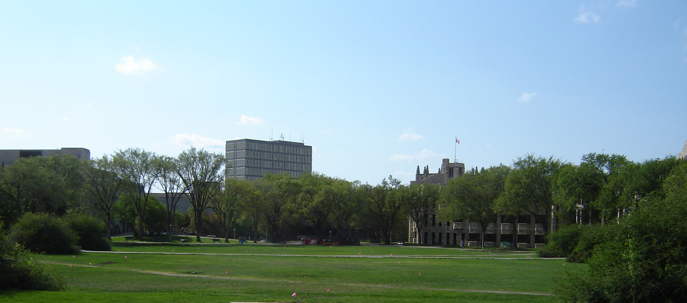 The Bowl as viewed from the College Building U of S Saskatoon Sasktchewan Canada The tallest building in the background is the Arts Building